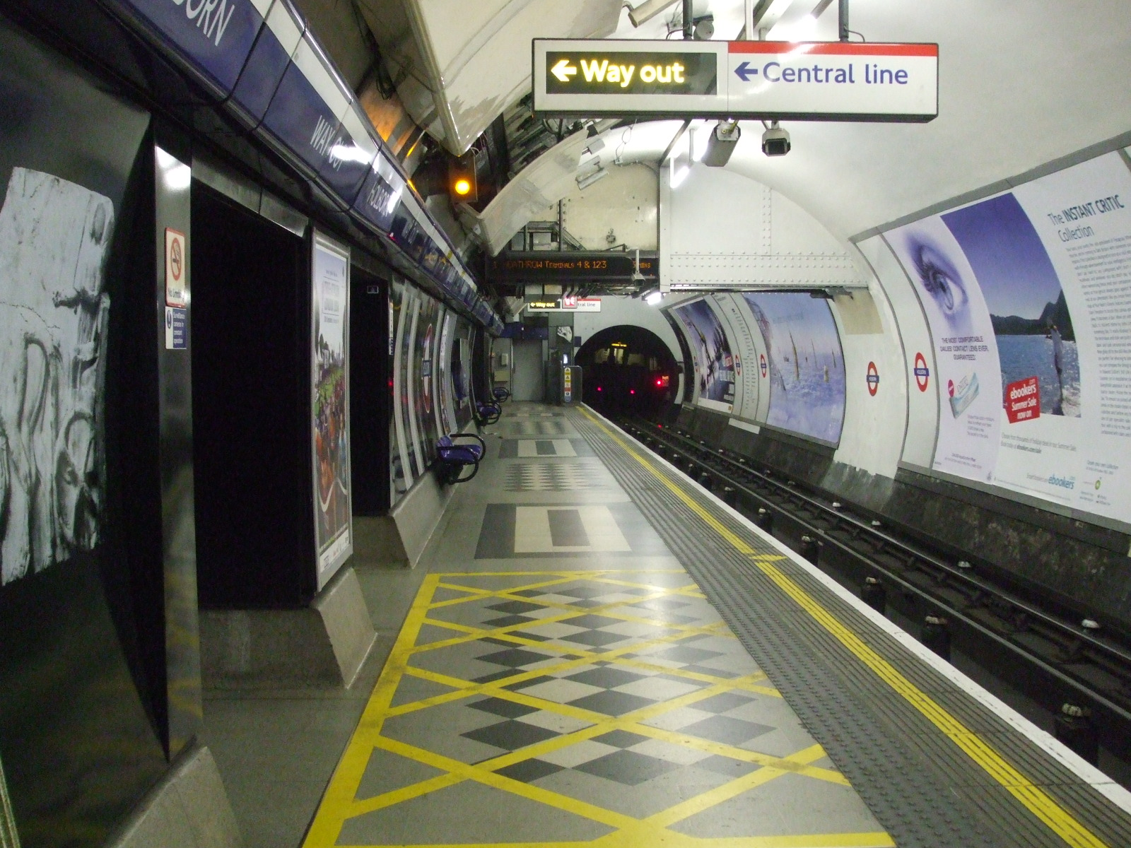 Holborn tube station westbound Piccadilly line platform looking west